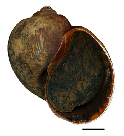 Photo of an apertural view of a shell of Pomacea maculata. Scale bar is 10 mm.